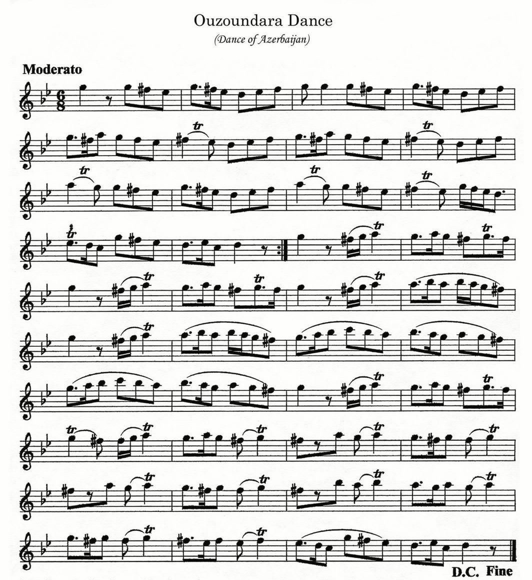 Azerbaijan national dance Uzundərə (Ouzoundara)